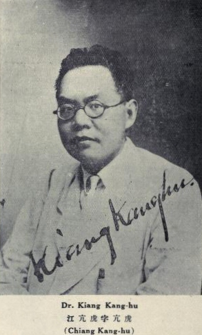 Jiang Kangfu (1883 - 1954)